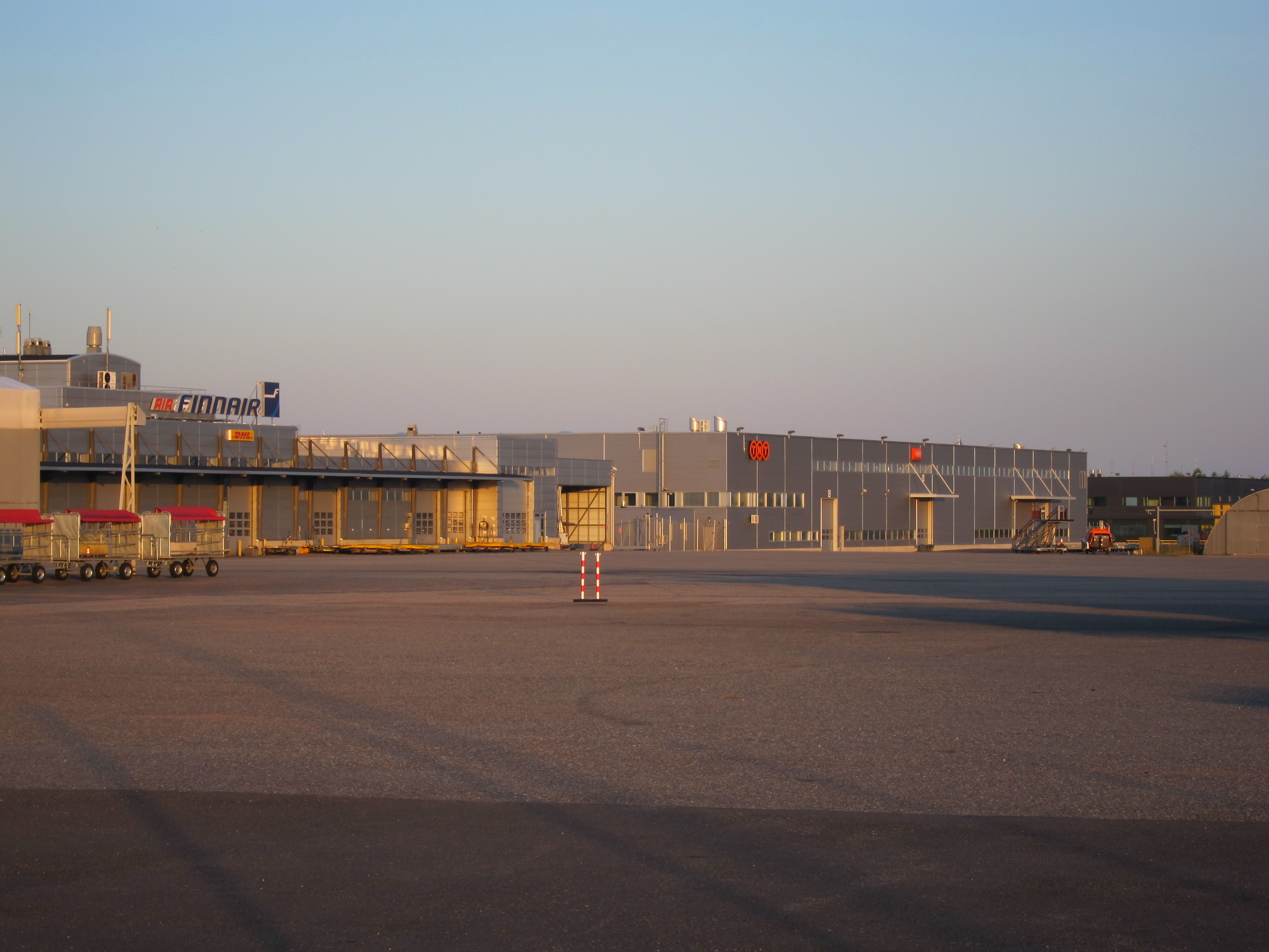 Turku Airport, Finland.